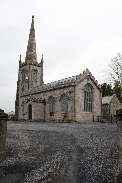 Ballynagall Chapel Now in use as a Michelin recommended restaurant.